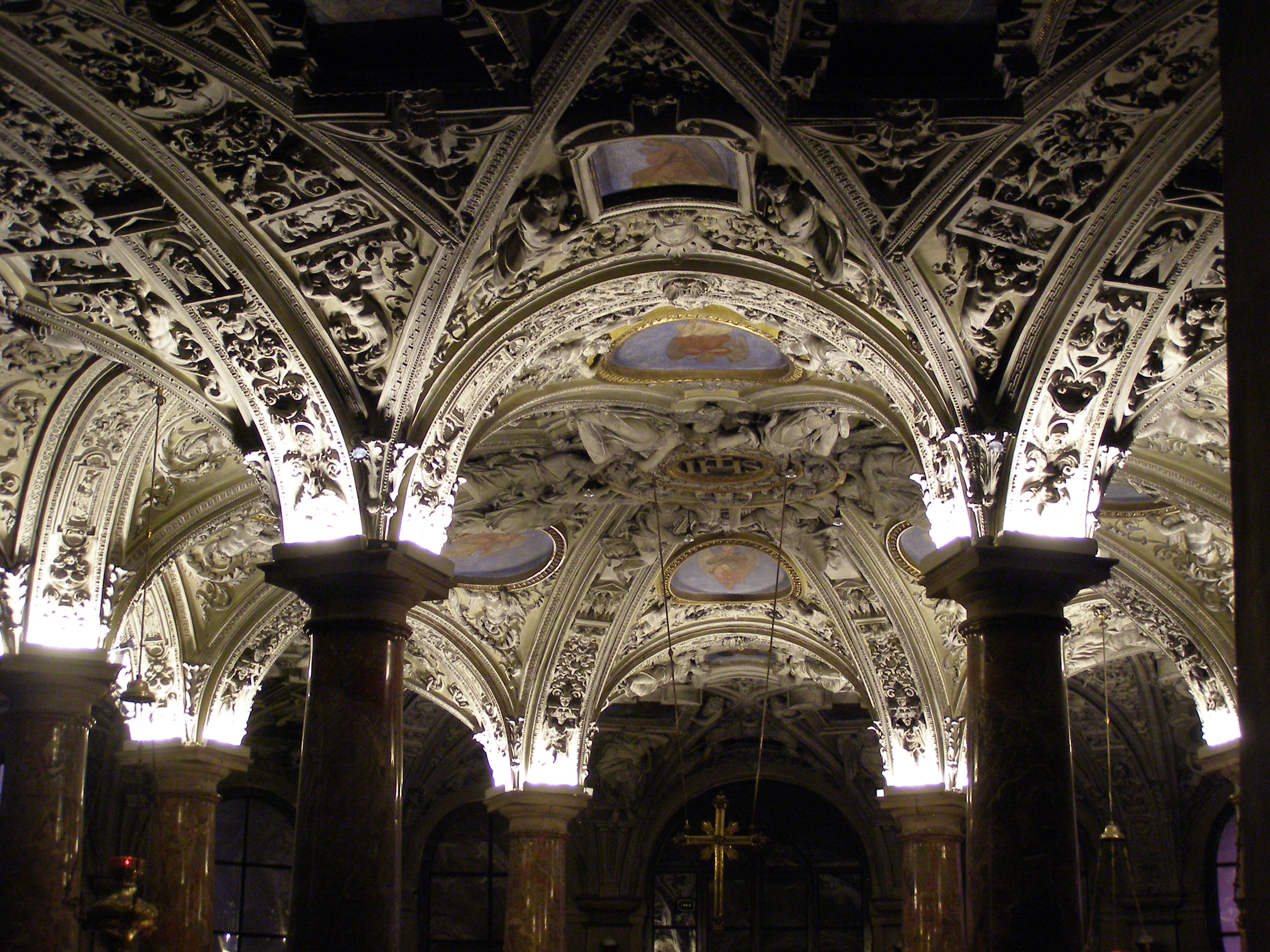 Milano - St. Charles Borromeo crypt in the cathedral